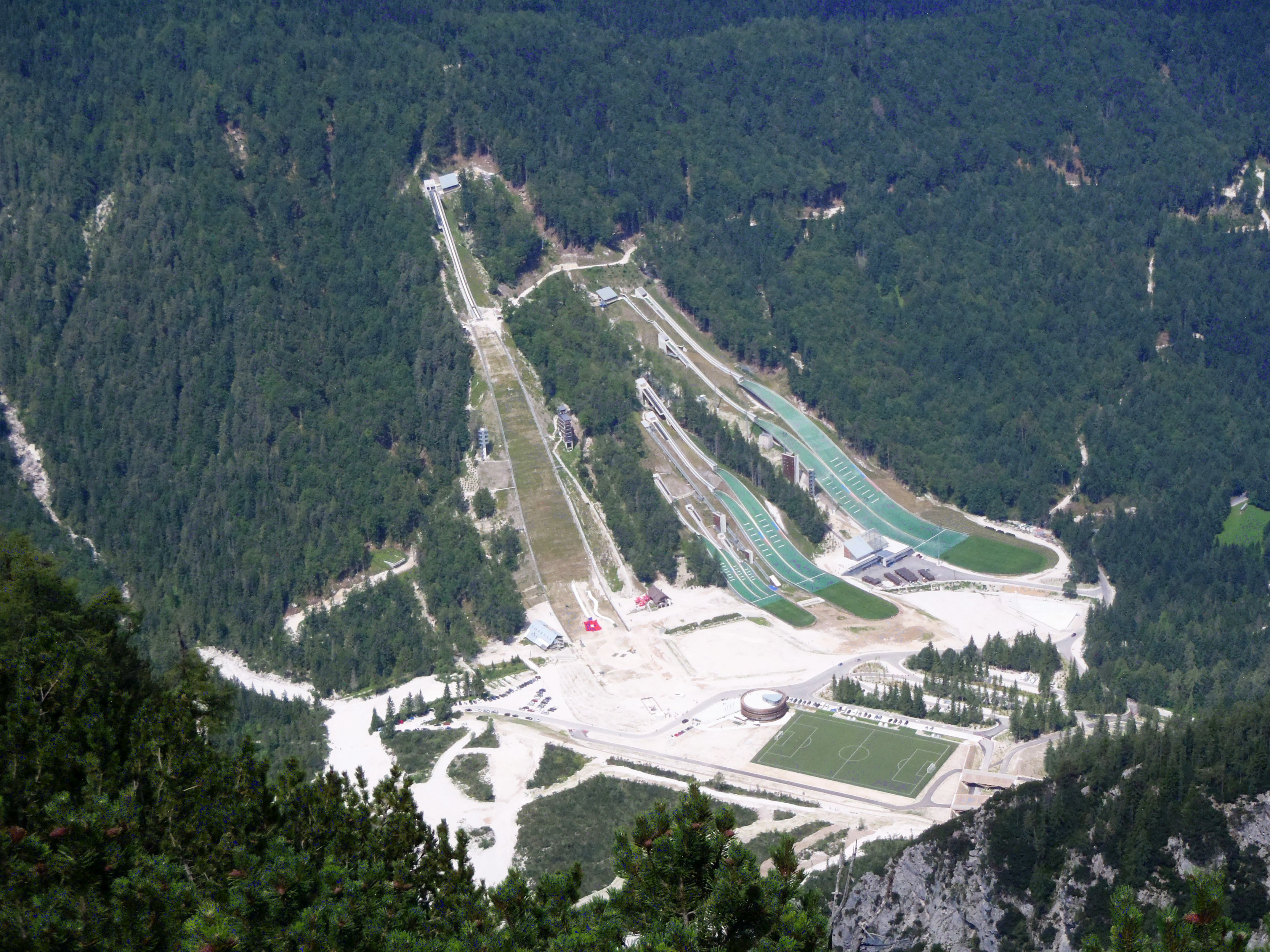 View of Planica from Mt. Ciprnik (1745 m).